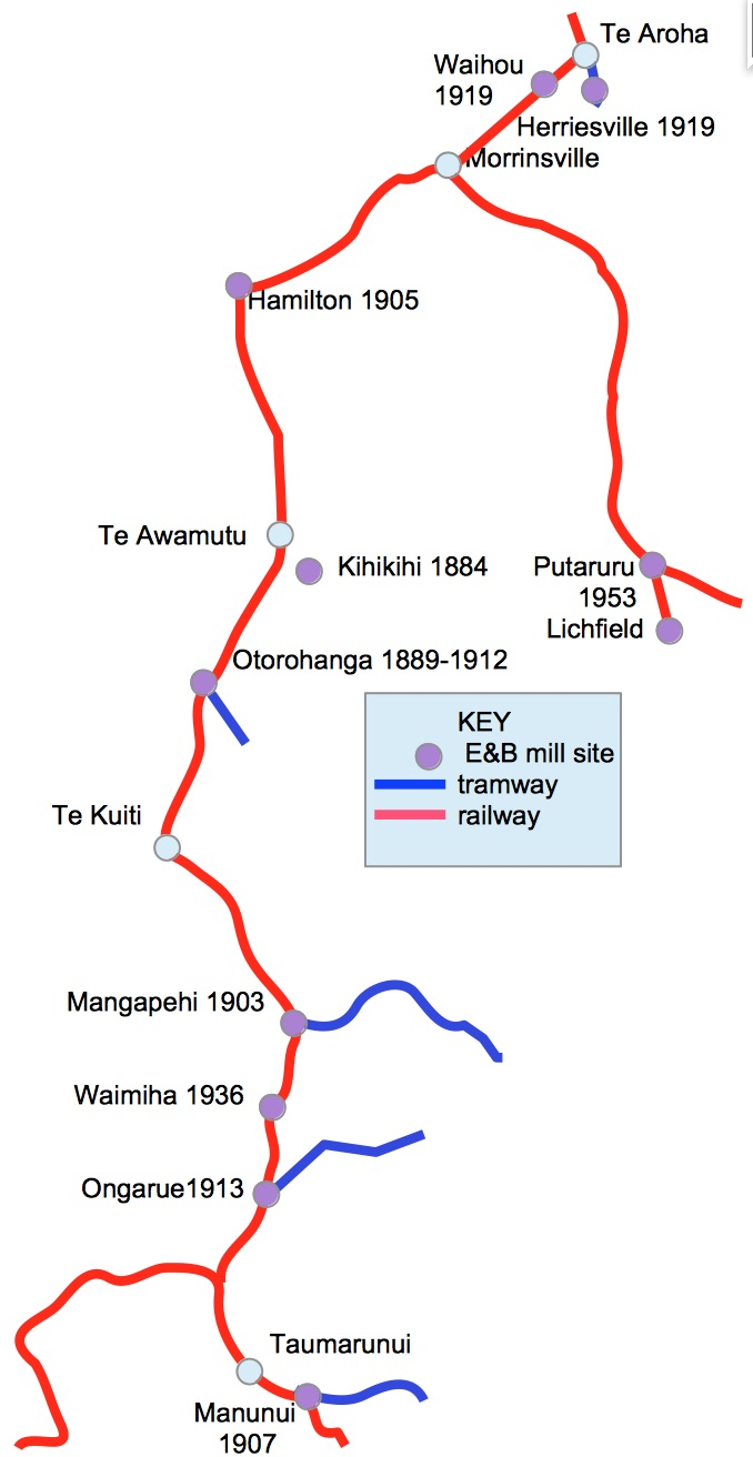 showing opening dates of sawmills